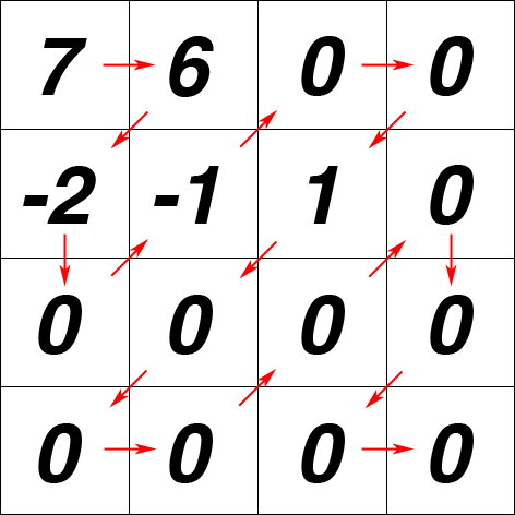 Example of 4x4 transformed luma block scan